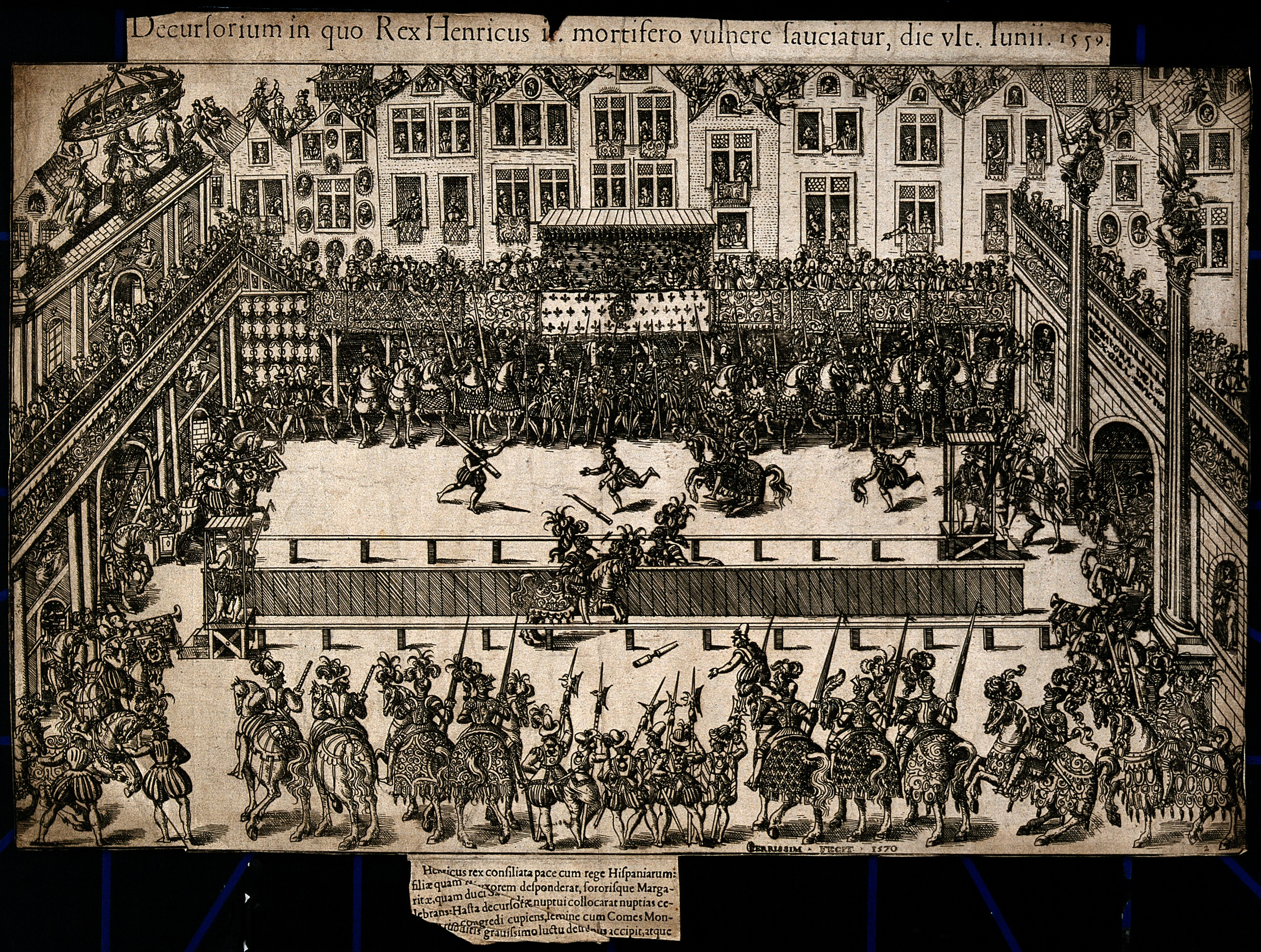 The jousting match at the Hôtel des Tournelles in Paris in 1559, in which Henri II of France loses his life. Etching. Iconographic Collections Keywords: Jean Jacques Perrissim